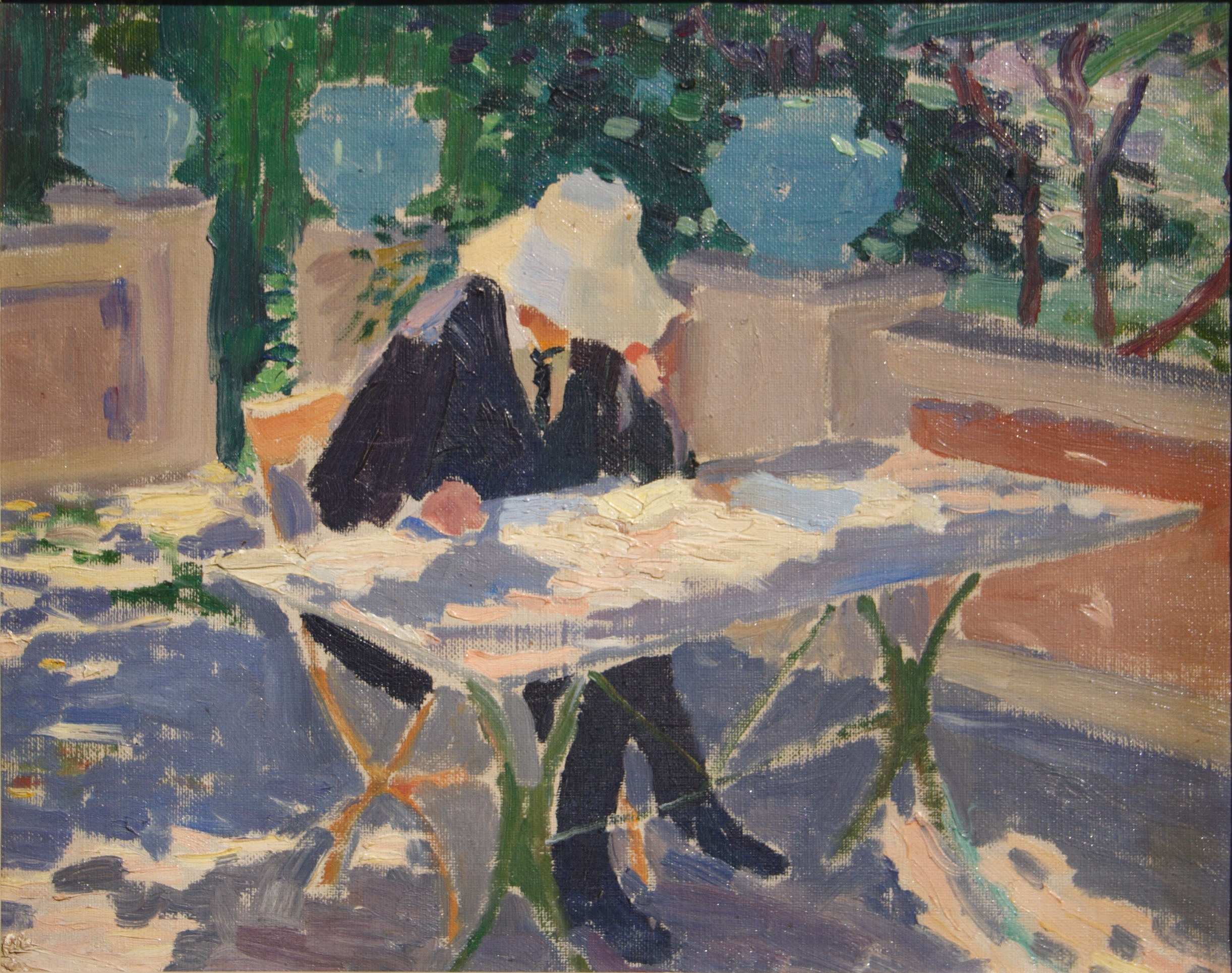 Summer Light at Cagnes sur mer (French Riviera, France) by Georges Emile Lebacq.